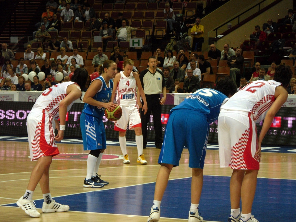 Dimitra Kalentzou shoots a free throw during FIBA EuroBasket Women 2011 in Poland.